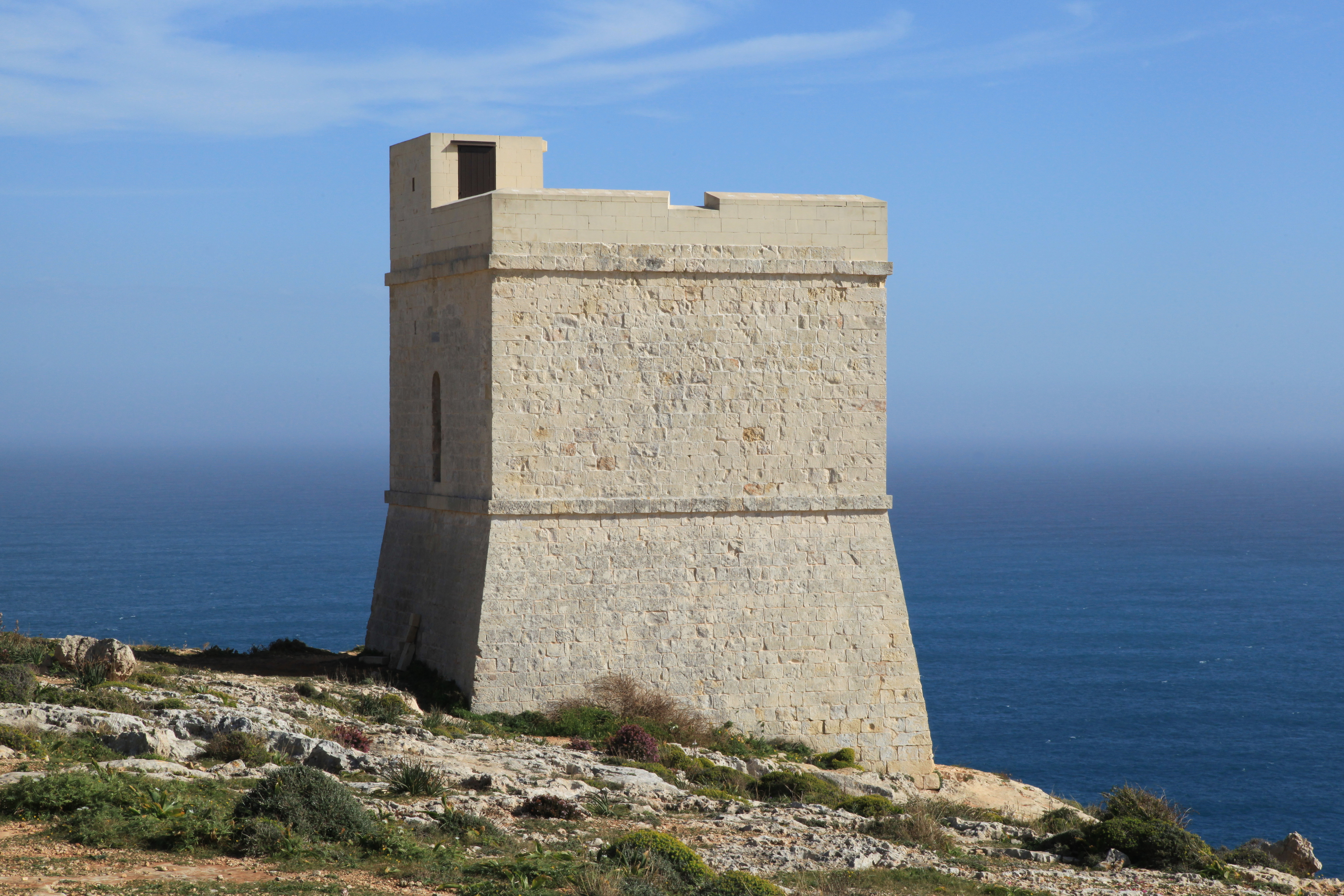 Torri Ħamrija in the Ħaġar Qim and Mnajdra Archaeological Park in Qrendi